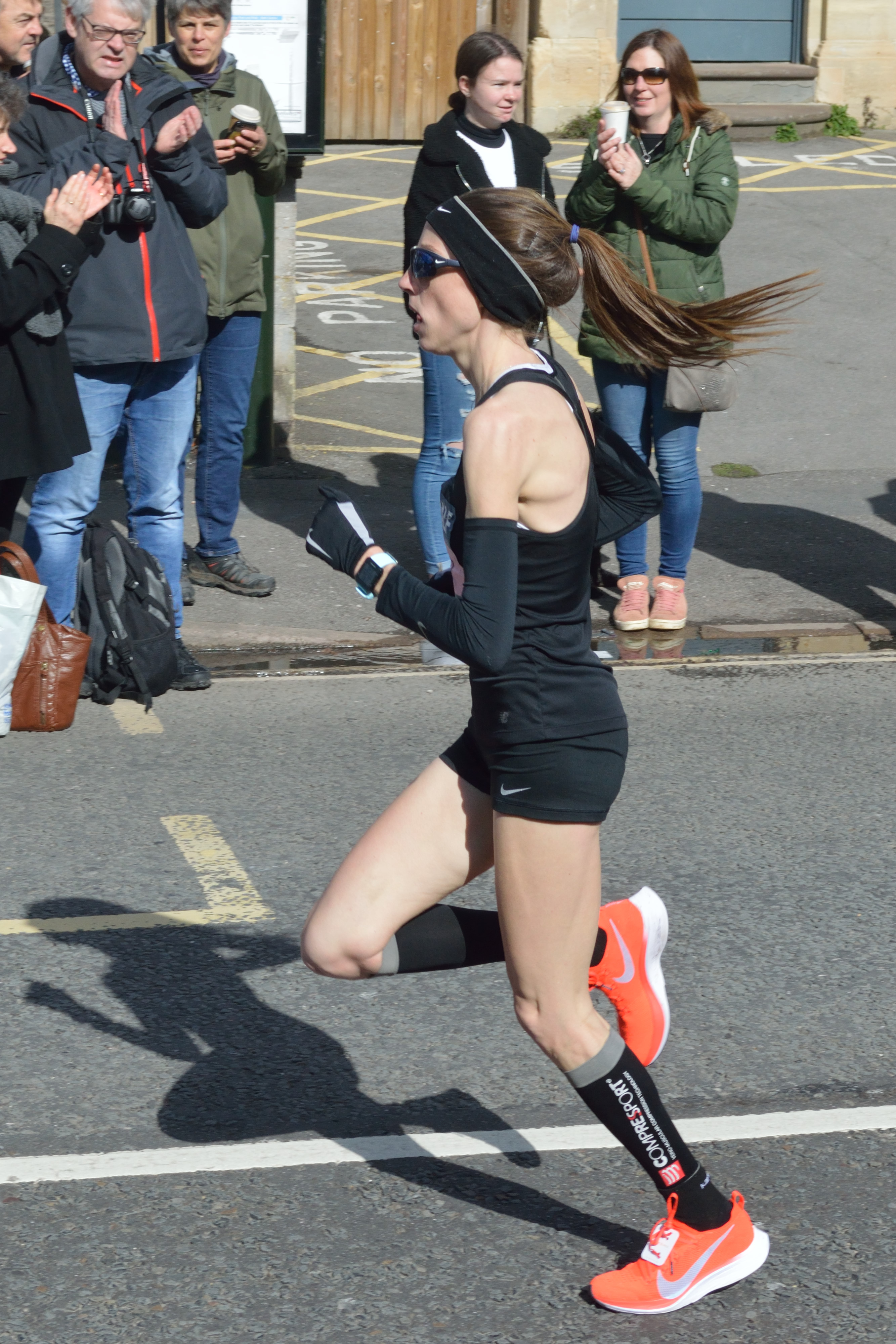 Kate Reed on the first lap of the 2019 Bath Half Marathon, on Newbridge Road, which she won (women's section) in 72m:43s.[1]